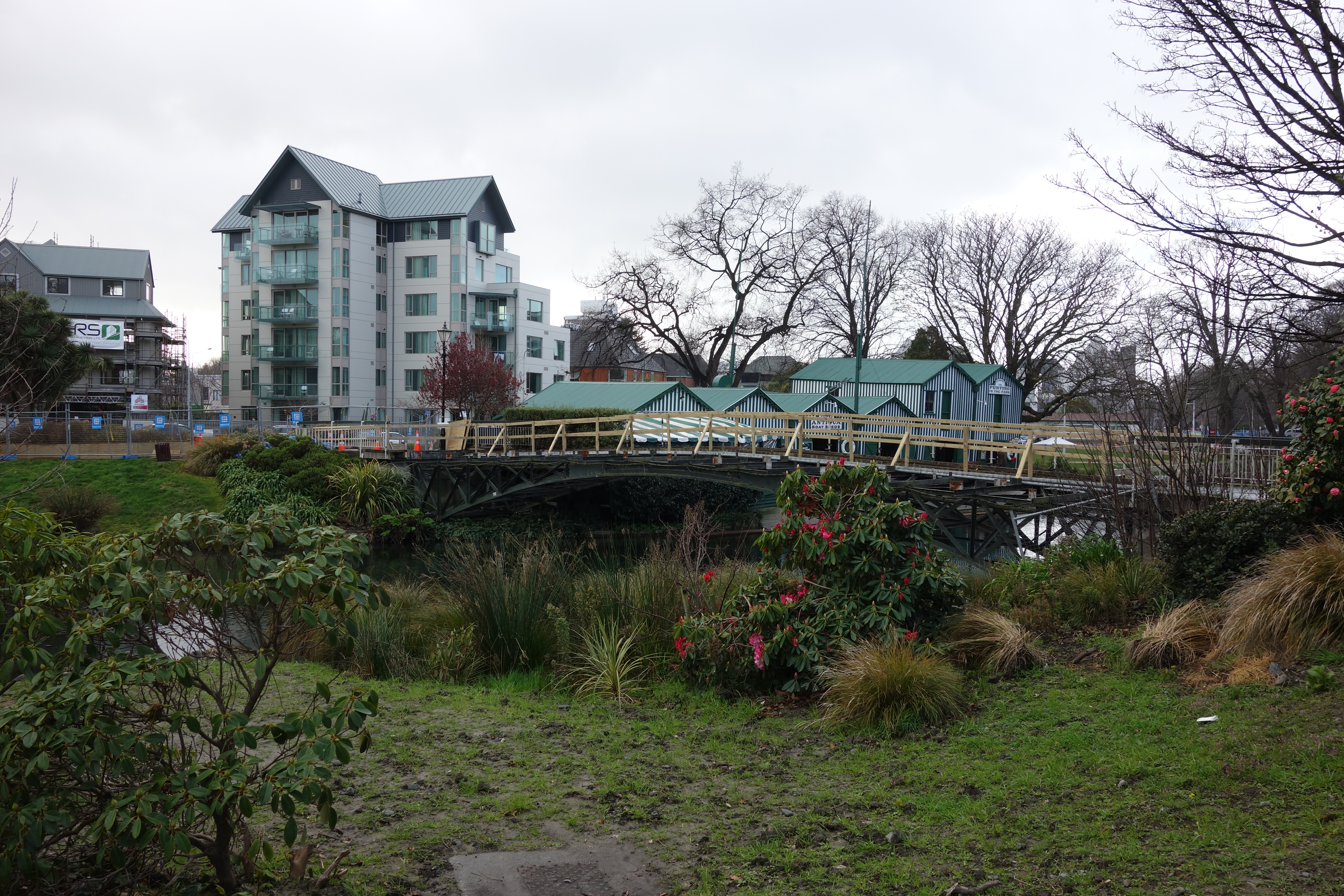 Antigua Street Bridge under repair in August 2013.